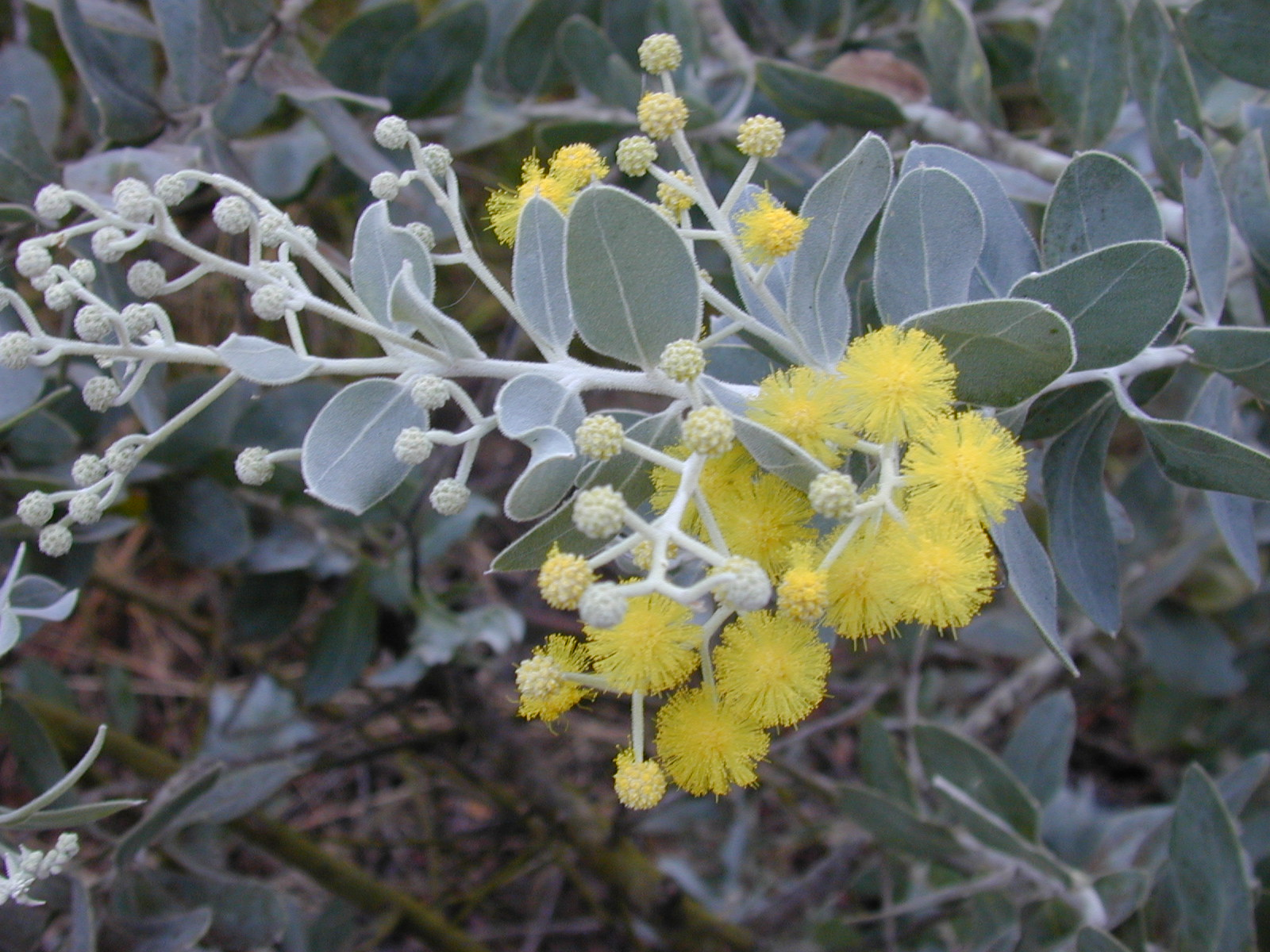 Acacia podalyriifolia (flowers and leaves). Location: Maui, Waipoli rd